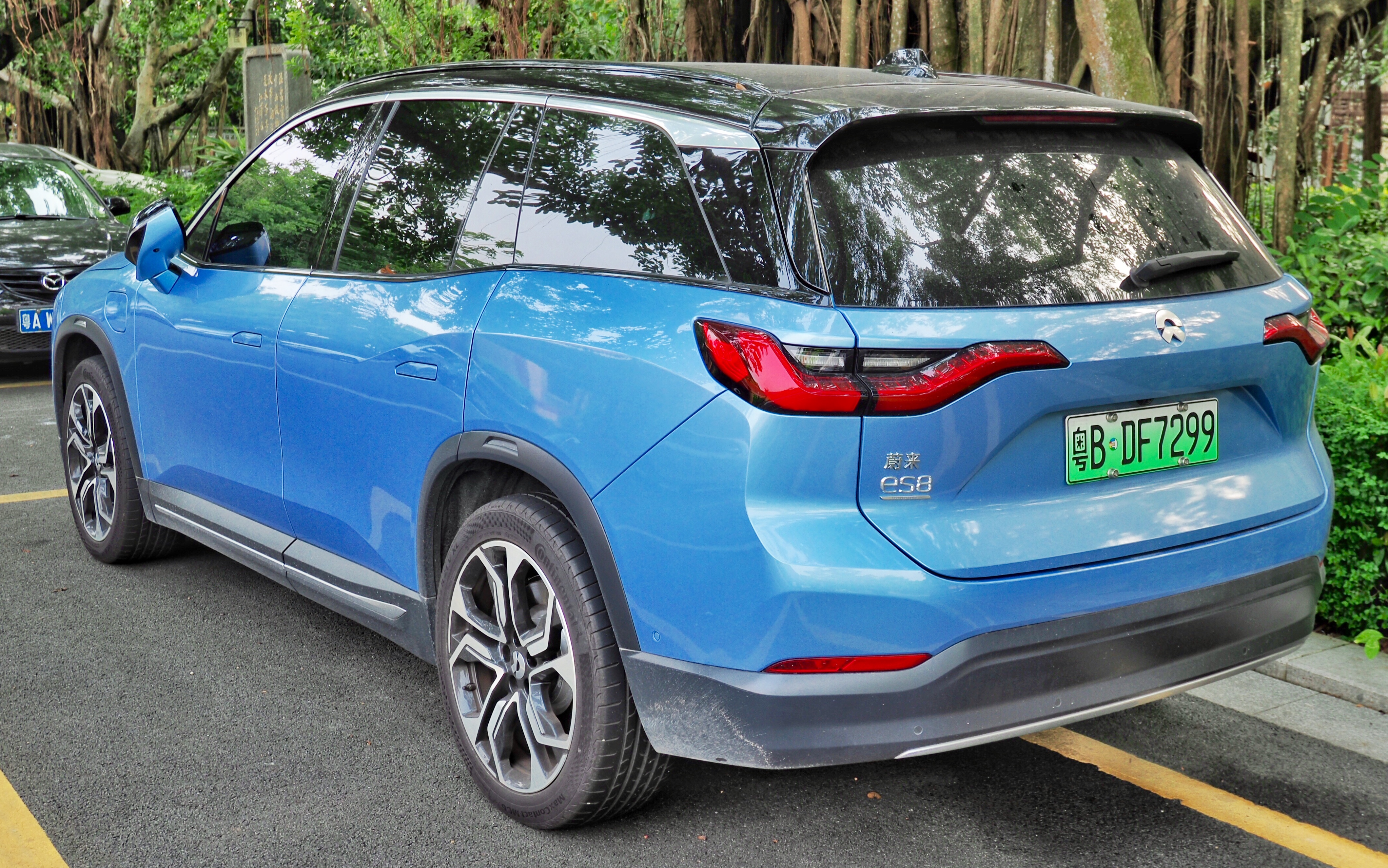 A 2018 NIO ES8 taken in Zhongshan, Guangdong province, China. 中文（中国大陆）: 一辆2018年的蔚来ES8，摄于中国广东省中山市。